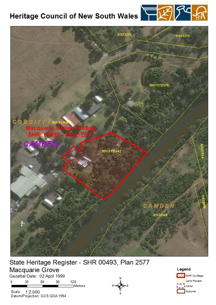 Macquarie Grove: SHR Plan No 2577